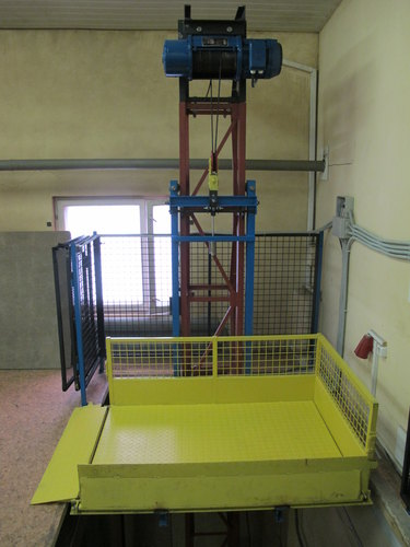 Mounting mast lift inside the building